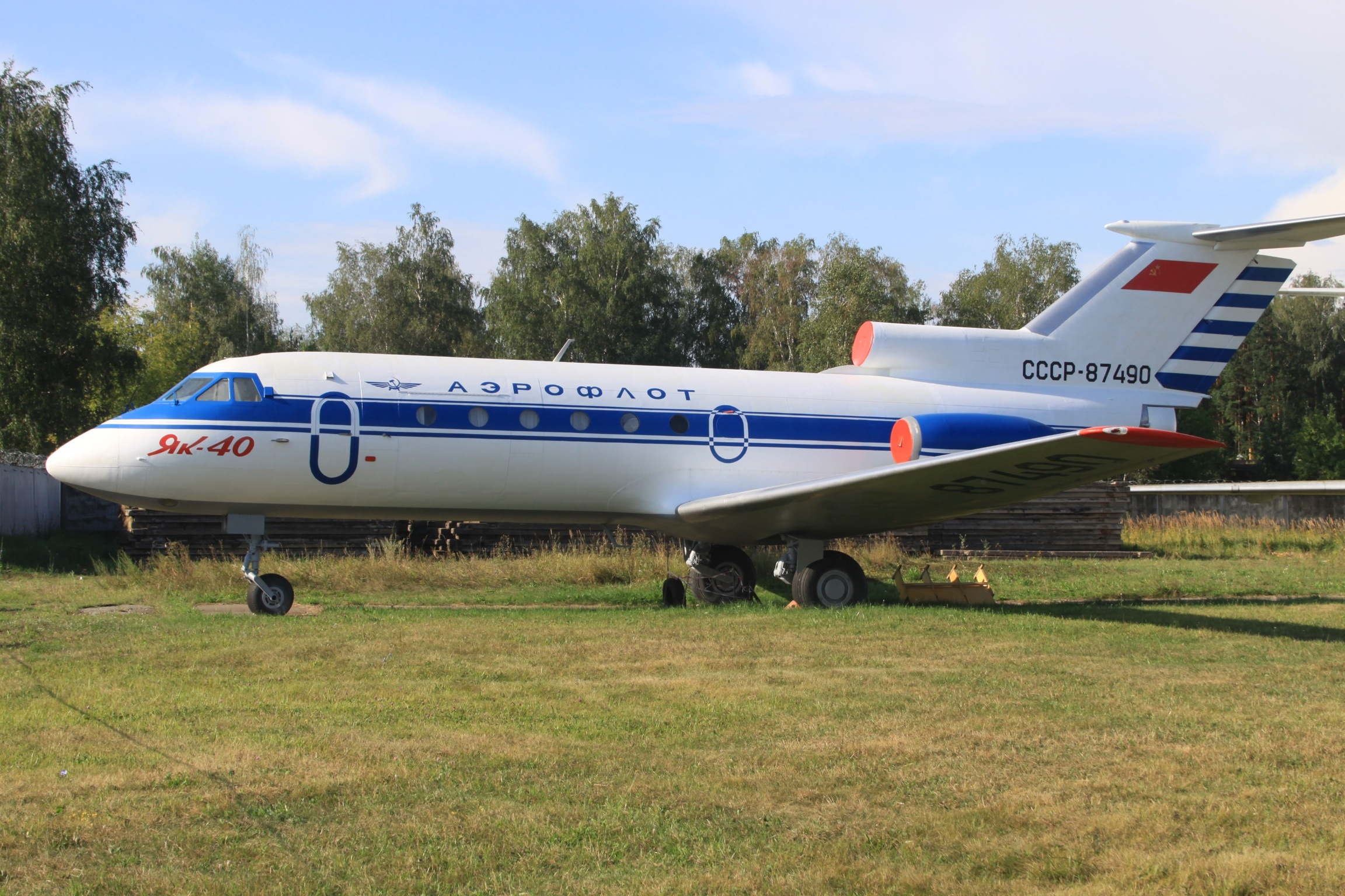 At Monino Museum